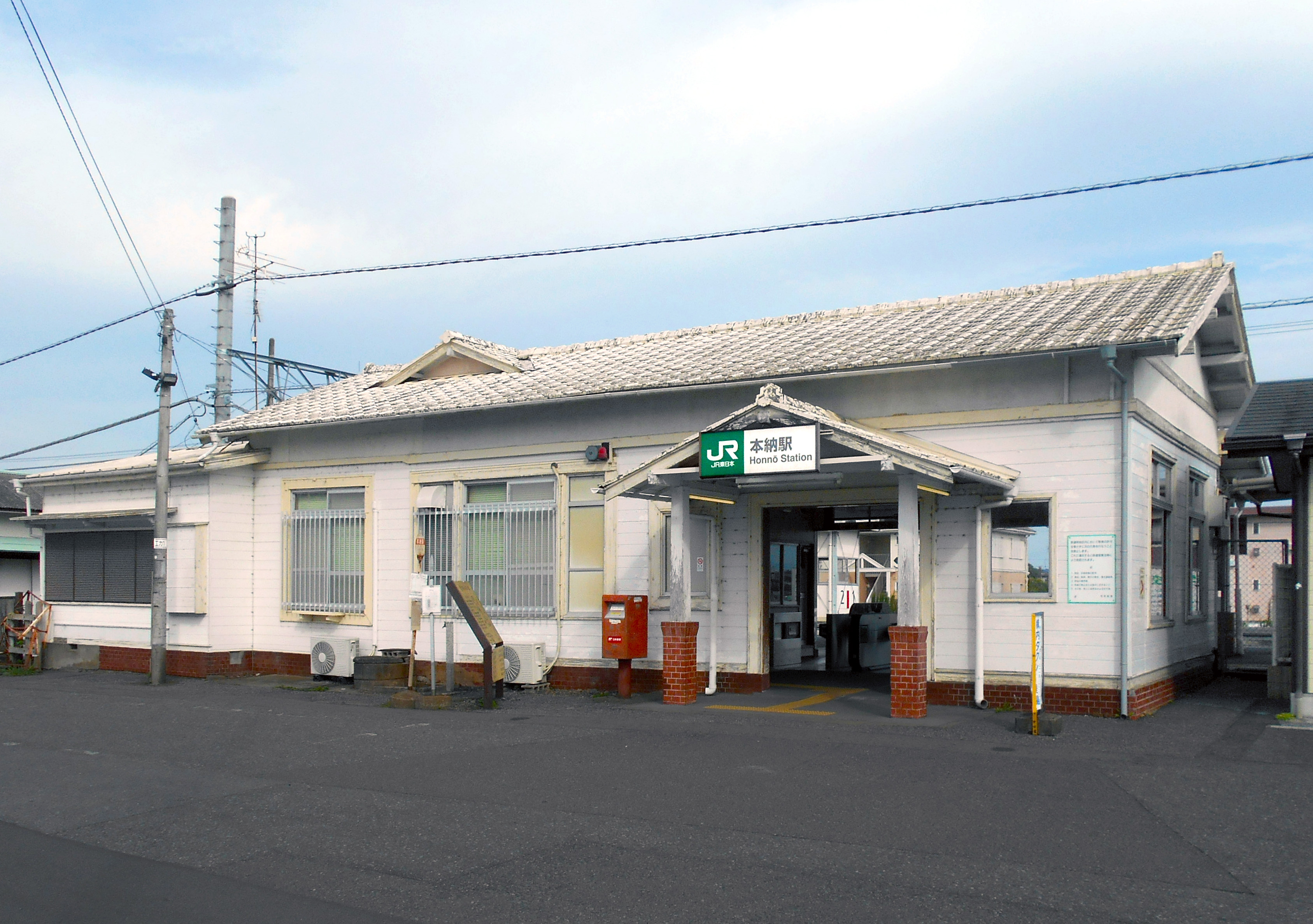 Honno Station on the Sotobo Line in Chiba Prefecture, Japan